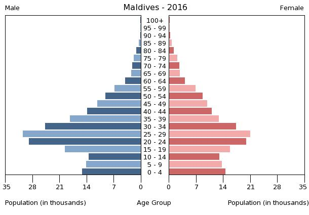 The population pyramid of the Maldives illustrates the age and sex structure of population and may provide insights about political and social stability, as well as economic development. The population is distributed along the horizontal axis, with males shown on the left and females on the right. The male and female populations are broken down into 5-year age groups represented as horizontal bars along the vertical axis, with the youngest age groups at the bottom and the oldest at the top. The shape of the population pyramid gradually evolves over time based on fertility, mortality, and international migration trends.